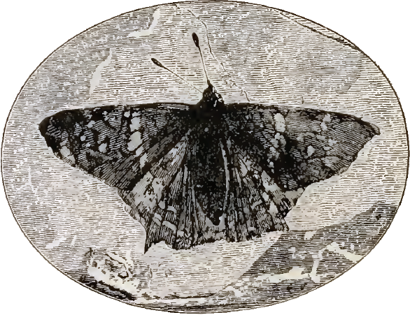 Engraving of the holotype fossil of Prodryas persephone, from an advert in Canadian Entomologist